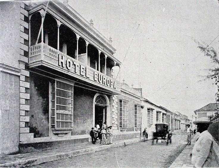 A photograph taken of Maracaibo's first "gran" - great - hotel, Hotel Europa, in about 1897, the year a film featuring it was made. It is included in several film histories, with some saying it is a still from the film, or taken during the filming. A video showing the restoration and history of the film Un célebre especialista sacando muelas en el gran Hotel Europa, created by the Venezuelan Association of Film Exhibitors, shows the image. The image has been held in the Zulia Photographic Archive and was a "frame" from 1897. Also in this video, it is stated that the creator of the 1897 film was Manuel Trujillo Durán, who died in 1933. Other suggestions for the director include Gabriel Veyre, who died in 1936. The image was also published in El Cojo Ilustrado in 1901, as reported by documents on early hotels in Maracaibo, including Milano and Lopez 2017.